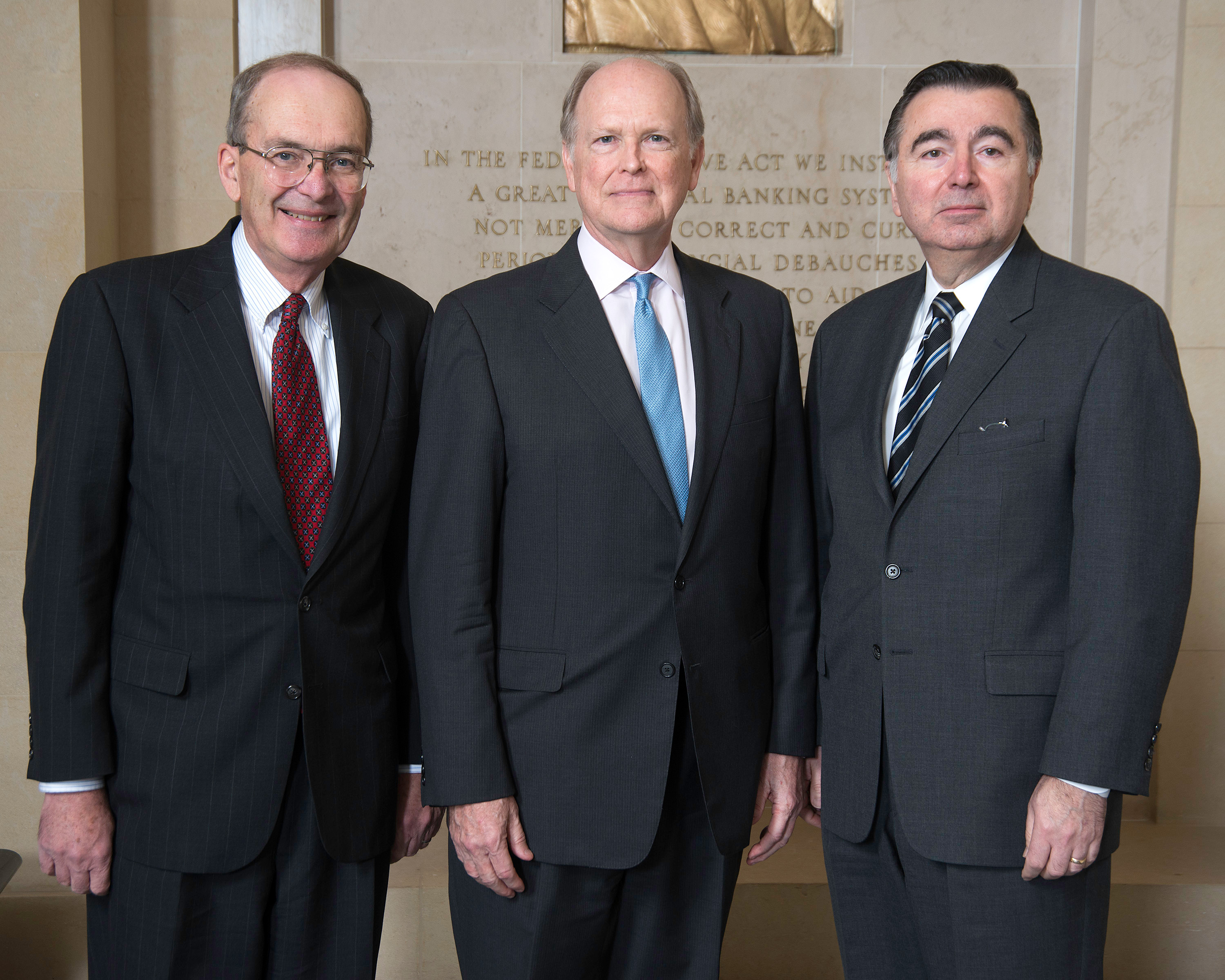 Current and Former FRB Philadelphia Presidents (Left to Right: Edward G. Boehne; Charles I. Plosser; Anthony M. Santomero)